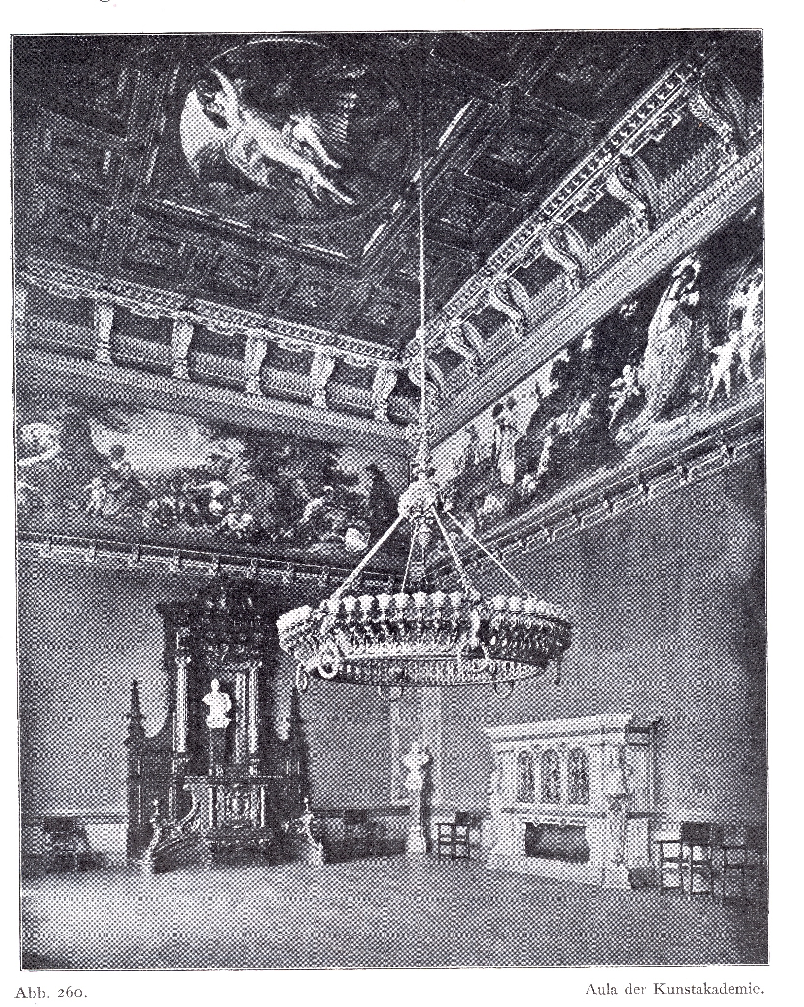 Düsseldorf, Kunstakademie erbaut von 1875 bis 1879 von Hermann Riffart, Aula.jpg